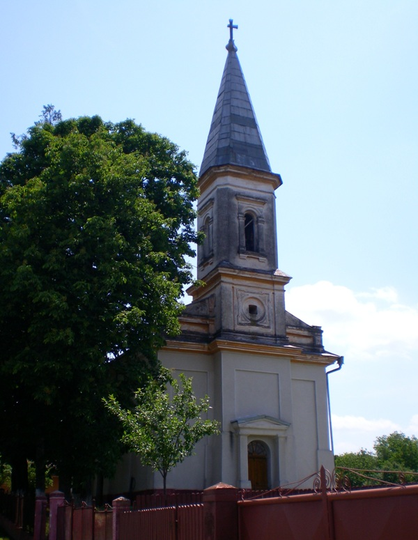 Roman Catholic church in Silagiu (Nagyszilas, Szilas) village, Banat region, Romania